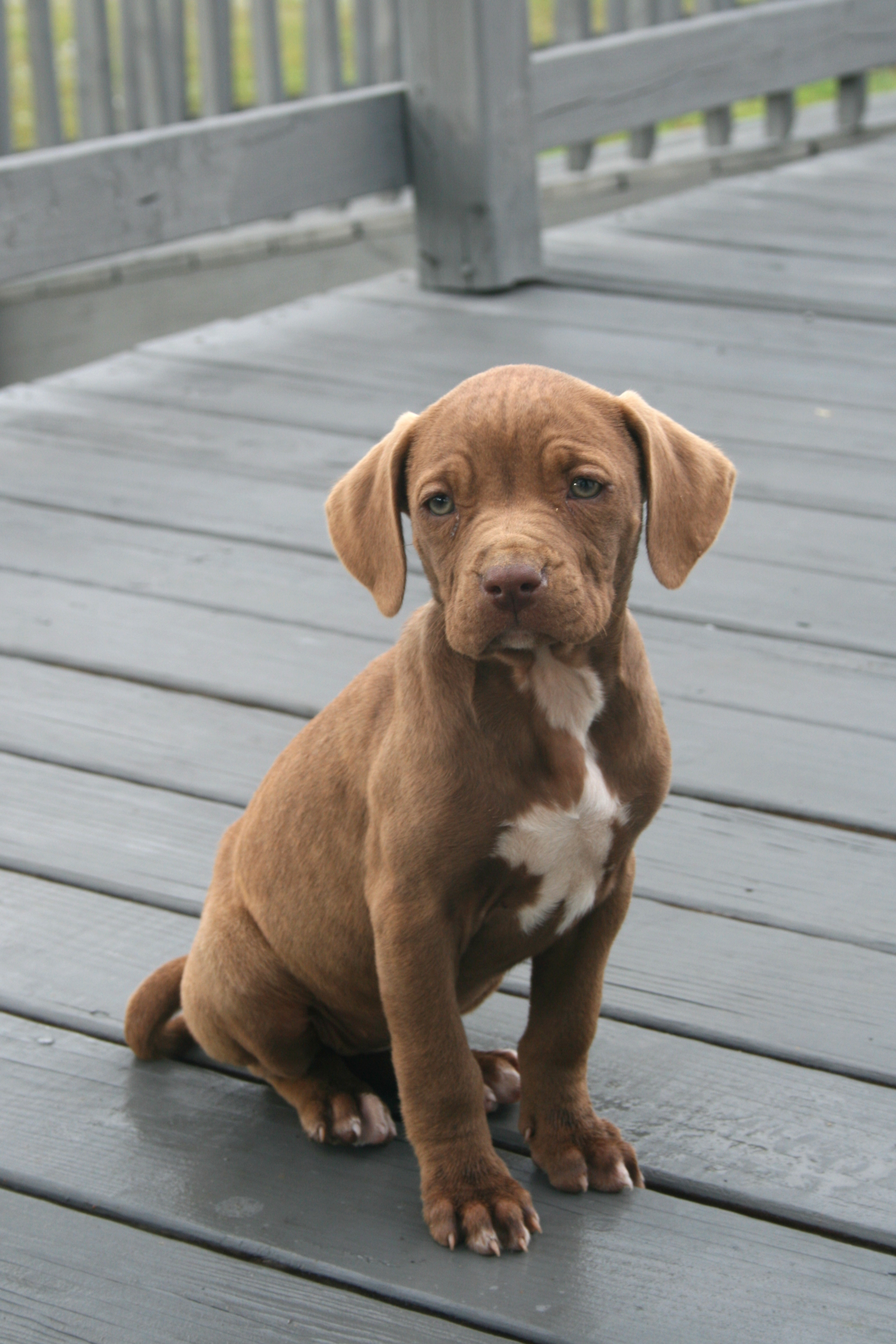 An American Pit Bull Terrier puppy sitting on a wooden deck at Big Daddy's Country Club in Moriah, North Carolina. Age: approximately 5 weeks.